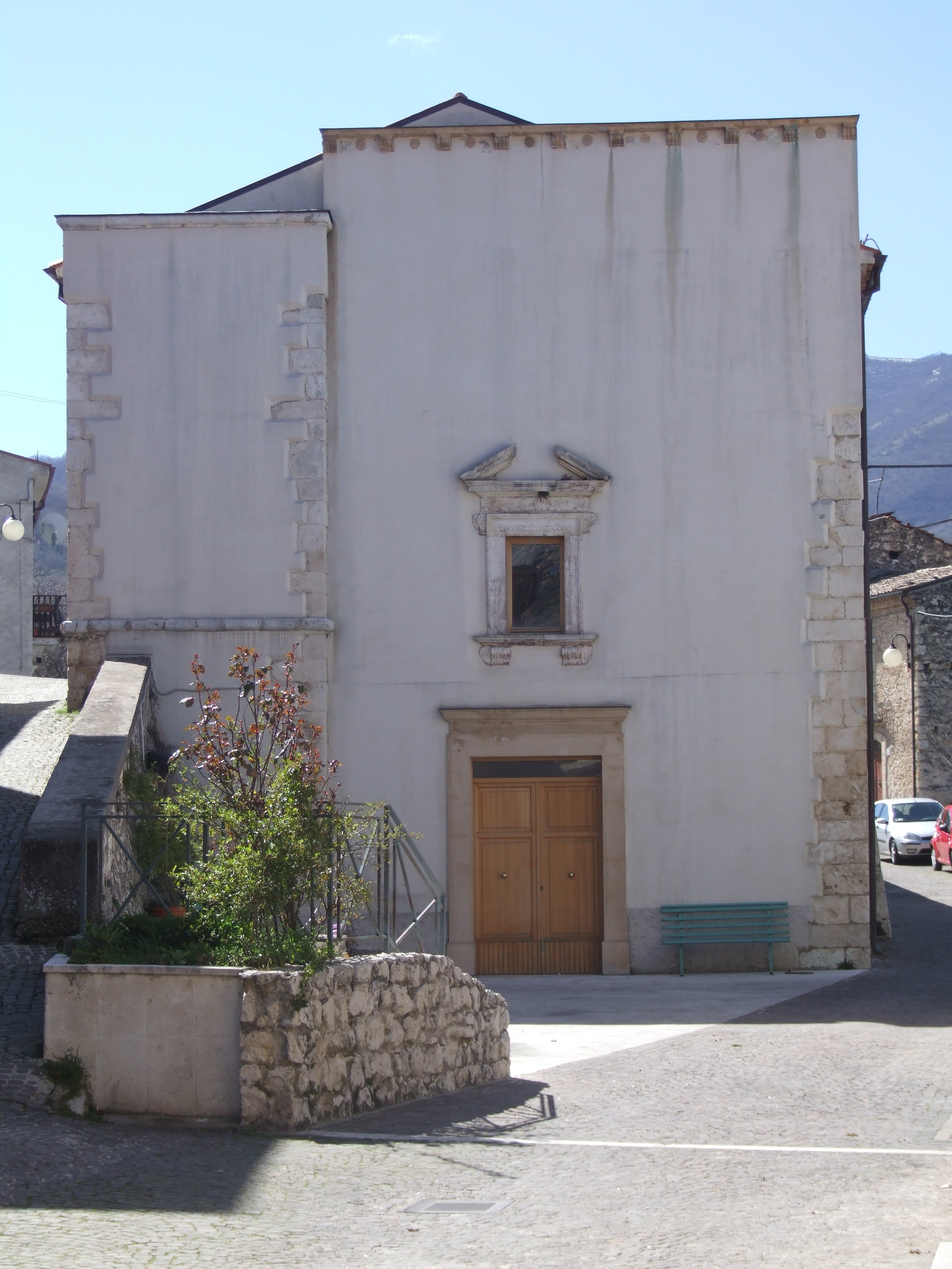 The second entrance to the Centro di Documentazione "Ocriticum" of Cansano